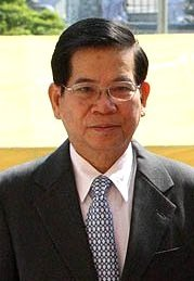 President of Vietnam Nguyen Minh Triet and President of Russia Dmitry Medvedev